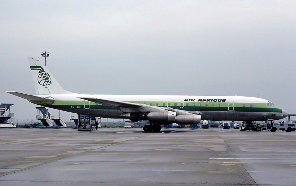 An Air Afrique Douglas DC-8-33 at Euroairport (BSL / MLH / LFSB)